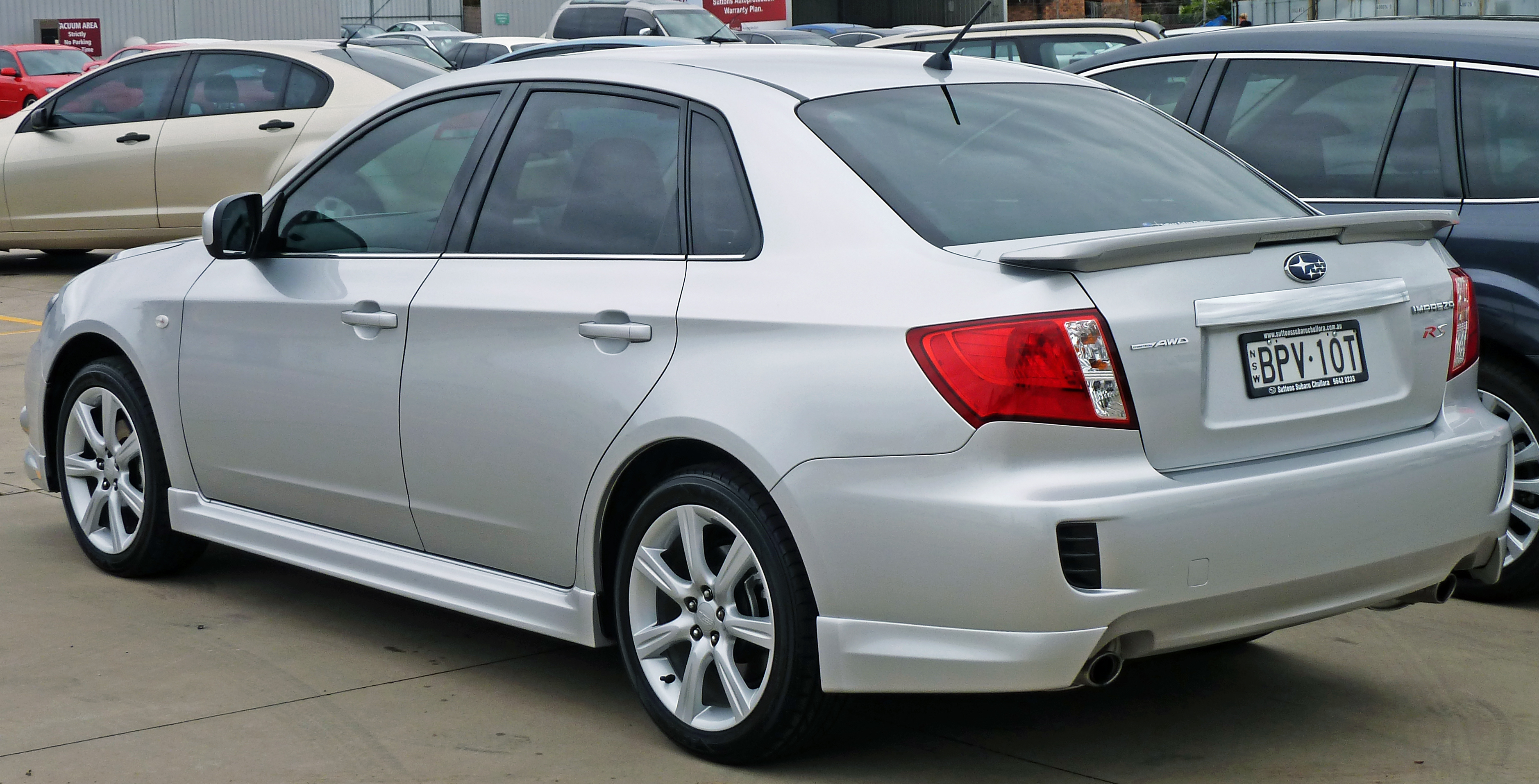 2010 Subaru Impreza (GE7 MY10) RS sedan. Photographed at Suttons Subaru, Chullora, New South Wales, Australia.